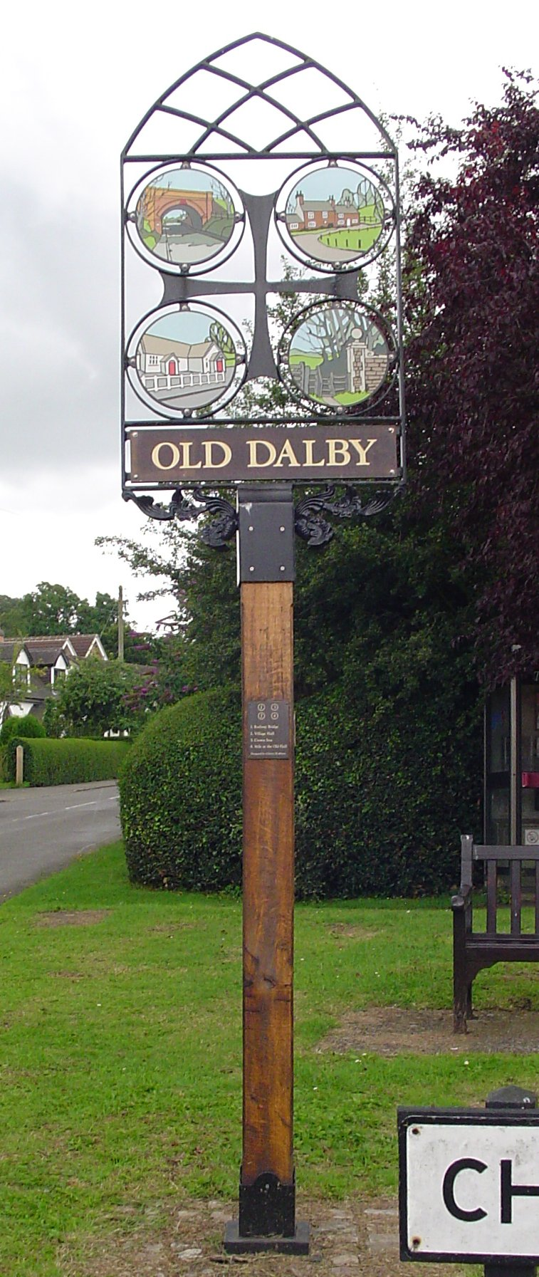 Signpost in Old Dalby, designs by local artist Chirsty Radburn